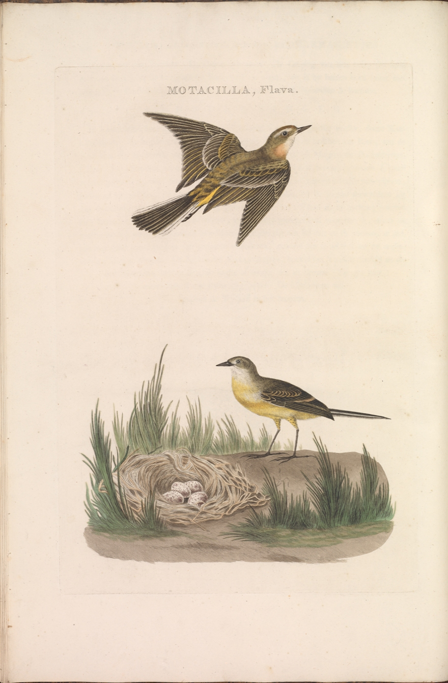 Plate 55 from the Nederlandsche vogelen by Nozeman and Sepp.